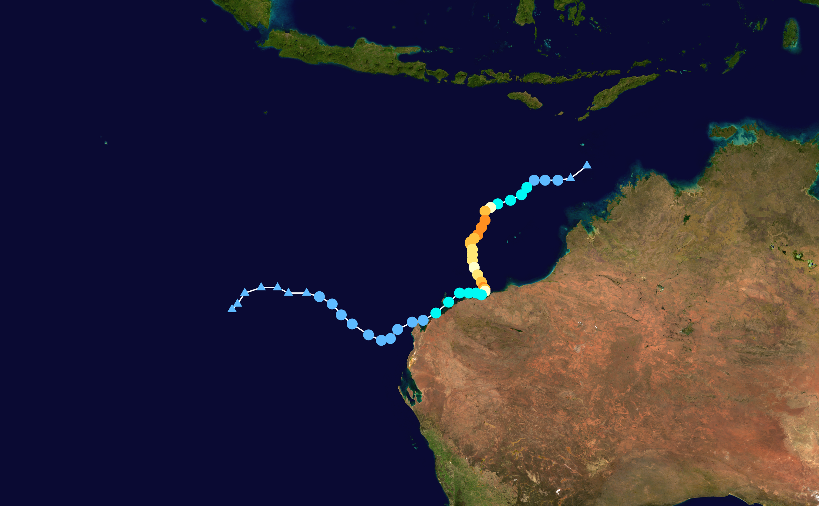 Track map of Severe Tropical Cyclone Veronica of the 2018-19 Australian region cyclone season. The points show the location of the storm at 6-hour intervals. The colour represents the storm's maximum sustained wind speeds as classified in the Saffir–Simpson scale (see below), and the shape of the data points represent the nature of the storm, according to the legend below. Saffir–Simpson scale Tropical depression≤38 mph≤62 km/h Category 3111–129 mph178–208 km/h Tropical storm39–73 mph63–118 km/h Category 4130–156 mph209–251 km/h Category 174–95 mph119–153 km/h Category 5≥157 mph≥252 km/h Category 296–110 mph154–177 km/h Unknown Storm type Tropical cyclone Subtropical cyclone Extratropical cyclone / Remnant low / Tropical disturbance